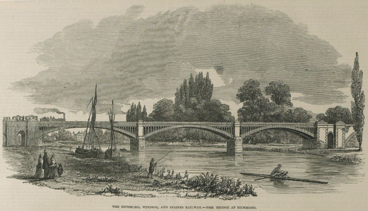 Richmond Railway Bridge on LSWR England Original caption: “The Richmond, Windsor, and Staines Railway – The Bridge at Richmond”